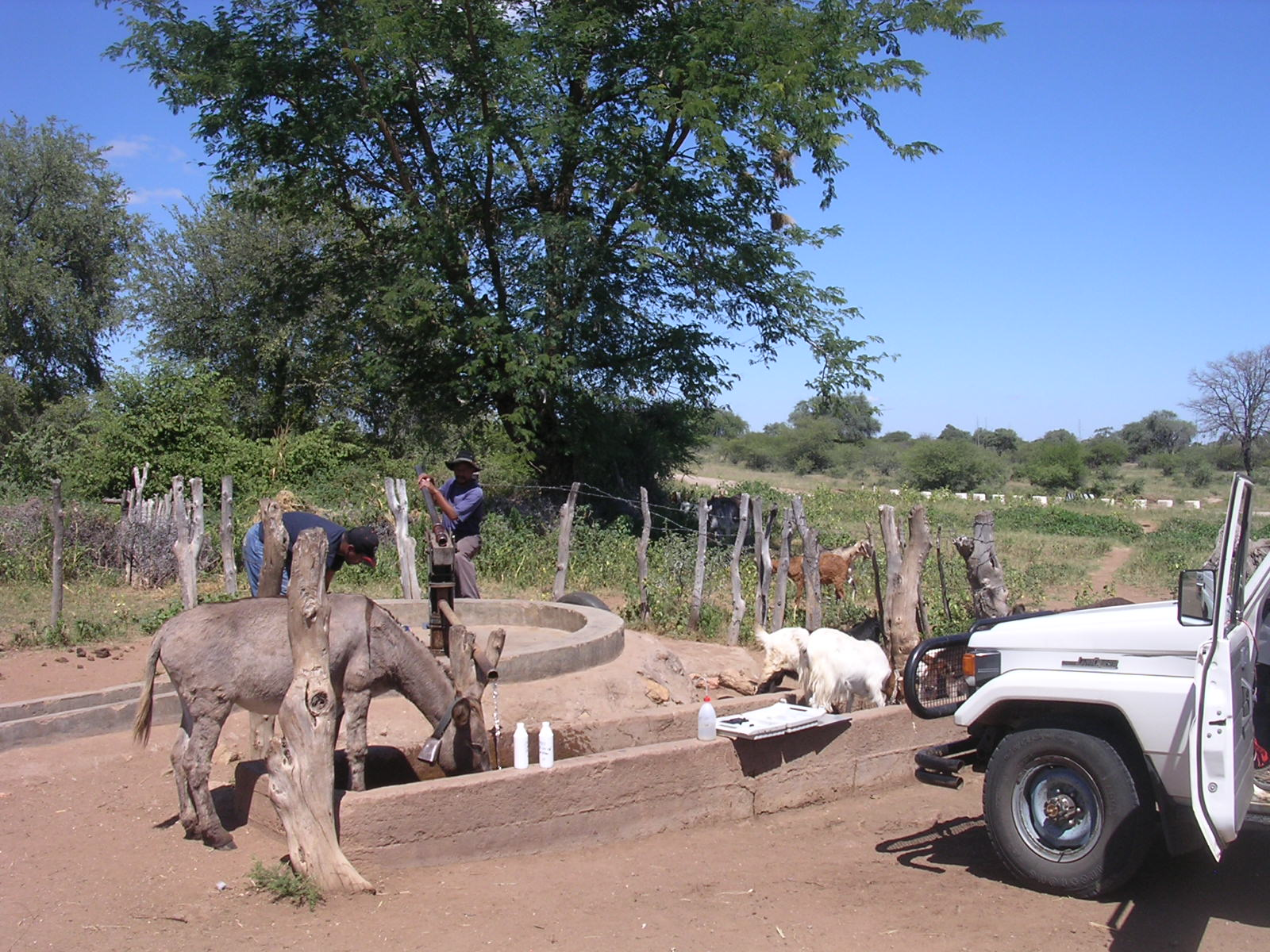 Borehole near Hwali